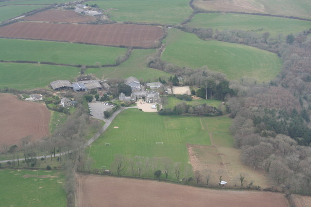 Polwhele House School Photographed from high above and to the South, this charming school is home to some of the best young voices in Cornwall, source of the Truro Catherderal Choir